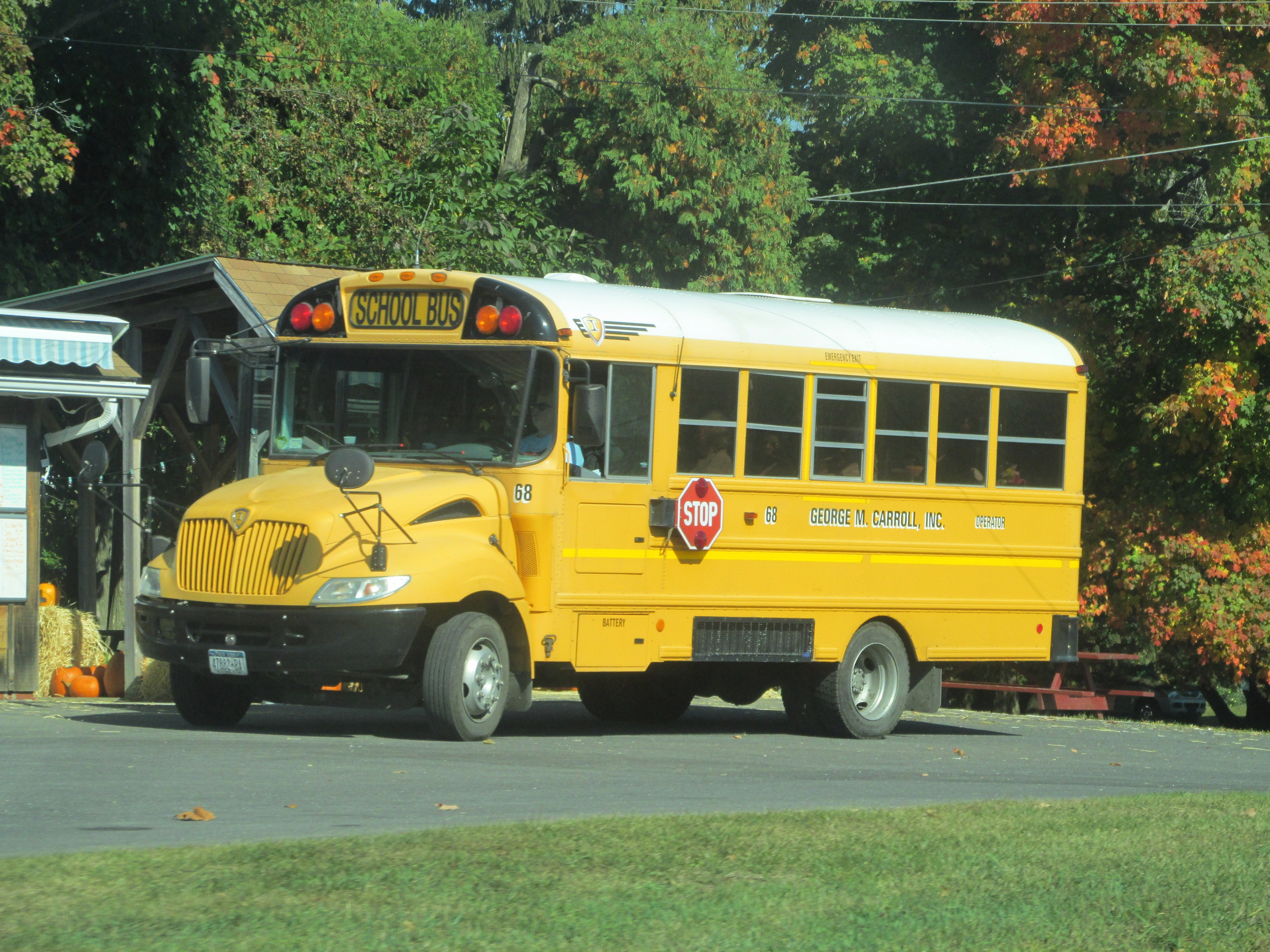 George M. Carroll #68